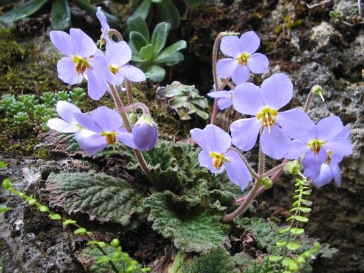 Ramondia pyrenaica in the Jardin alpin du jardin des Plantes de Paris